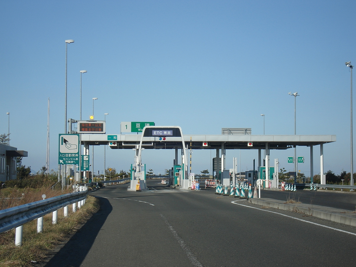 This Interchange, Watari Interchange, is on Joban Expressway, in Watari town, Miyagi Prefecture, Japan.